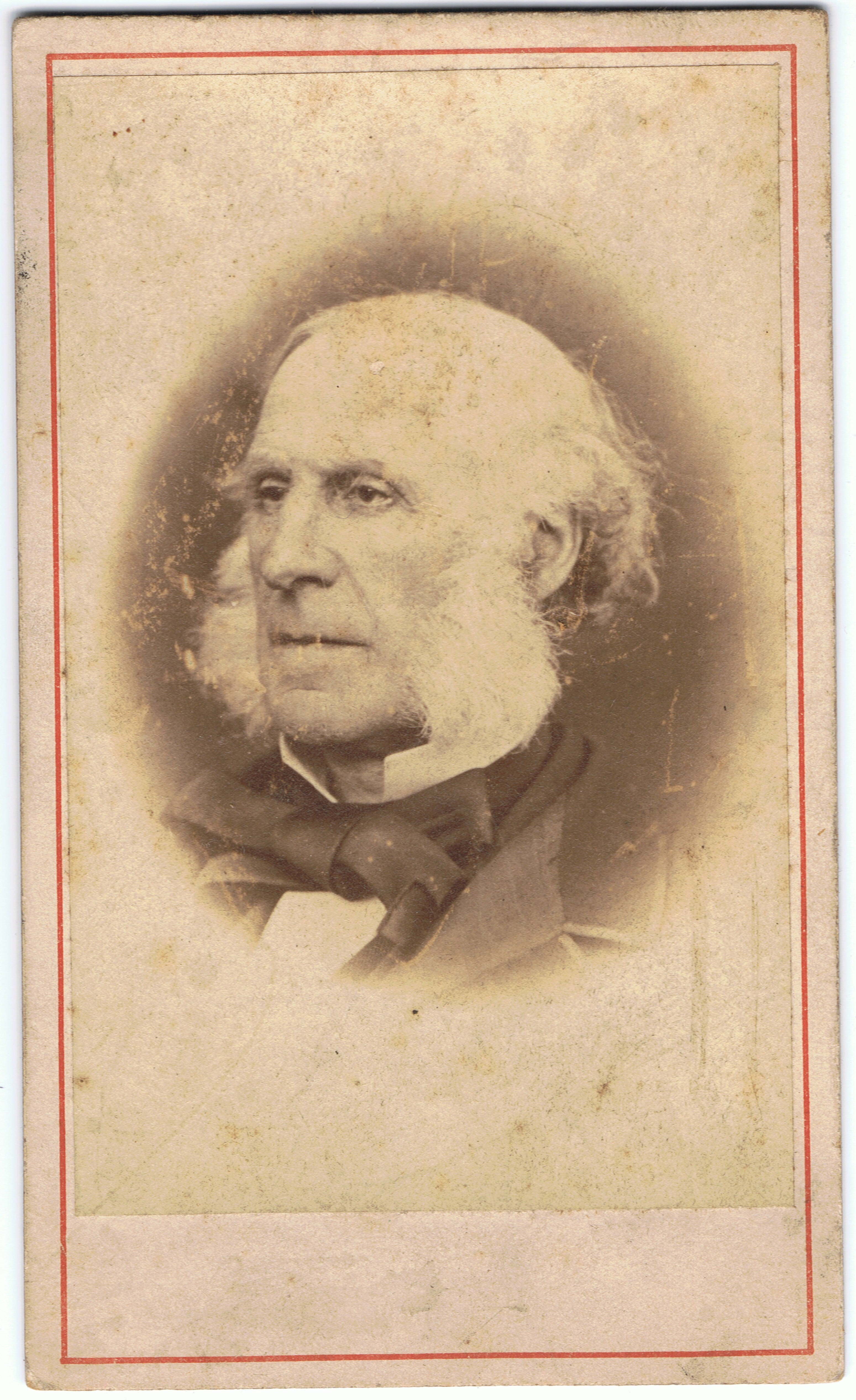 scan of C19th photo of William Andreas Salicus Fane De Salis. Scan by R. de Salis, October 2007.Rodolph 10:42, 19 October 2007 (UTC)